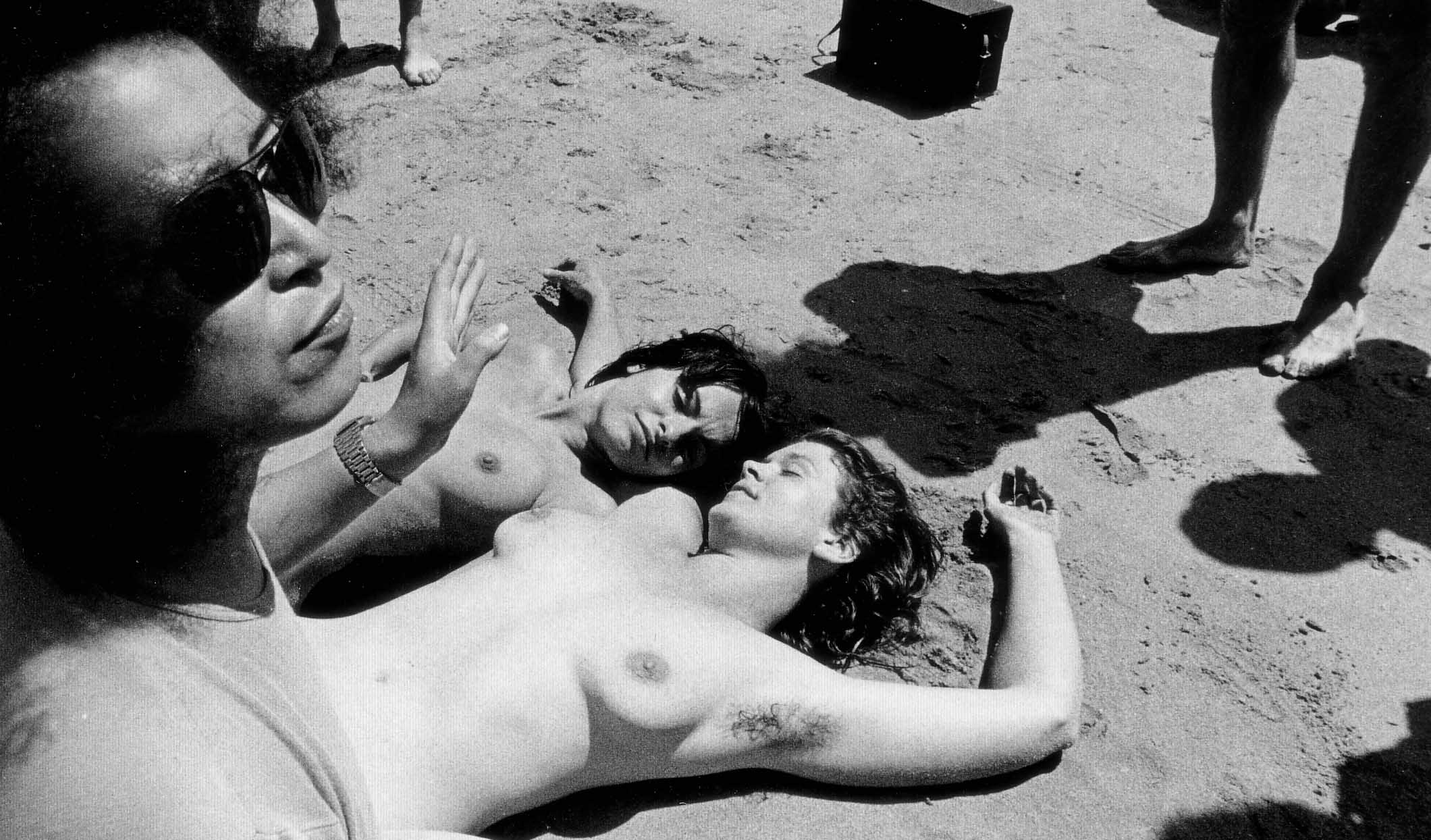 Japanese star photographer Kishin Shinoyama and two female models, Southern France, 1975. The photograph was taken during a workshop of '6èmes Rencontres Internationales de la Photographie', Arles, 1975, on a nude beach near 'Saintes-Maries-de-la-Mer'. Nikon 24mm lens. Standing, right side, with camera: US photographer Ralph Gibson.